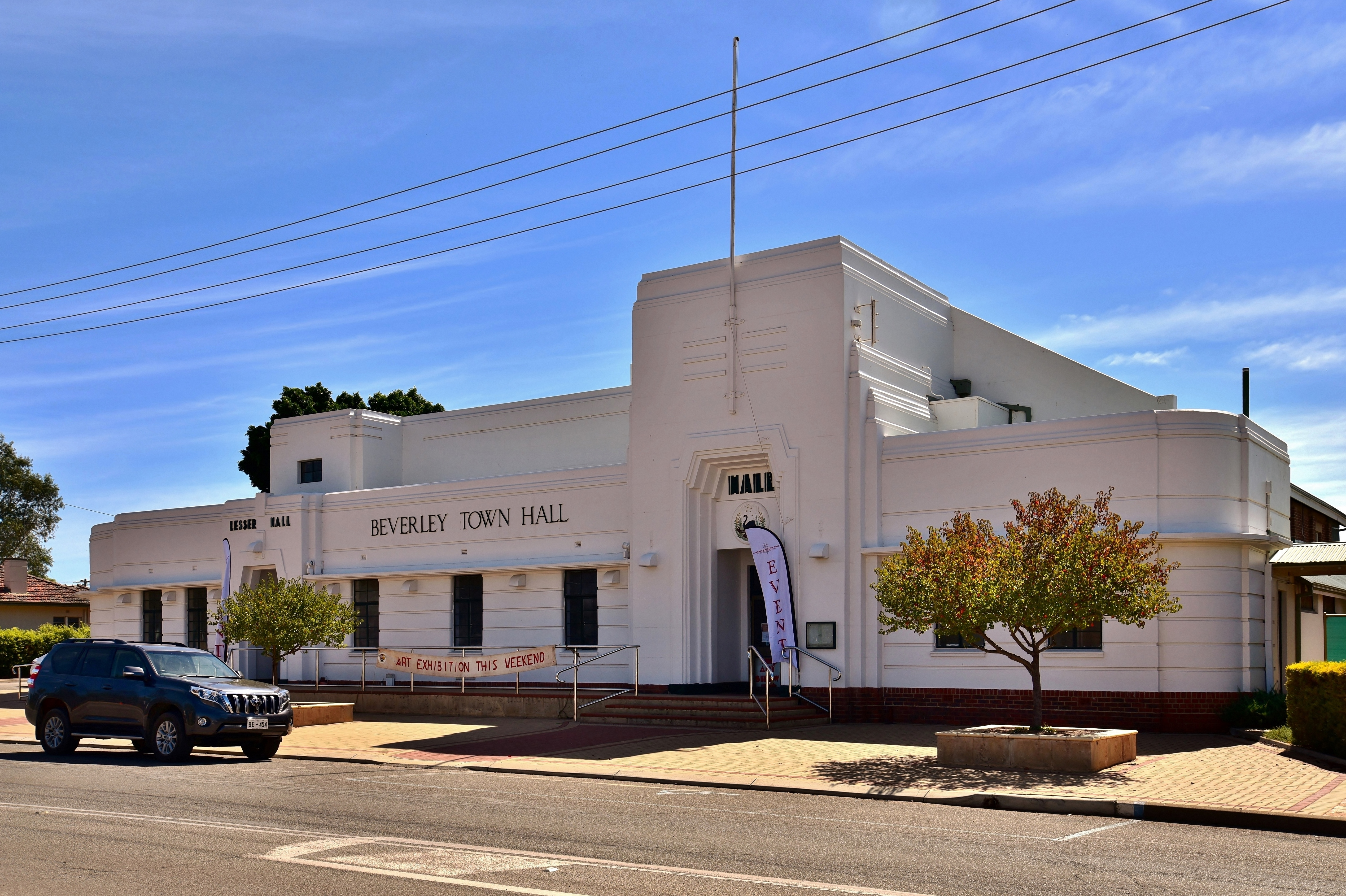 View of the Beverley Town Hall, Vincent Street, Beverley, Western Australia